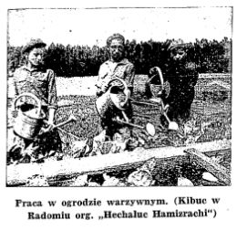 Members of Hechaluc Hamizrachi movement in kibbutz in Radom